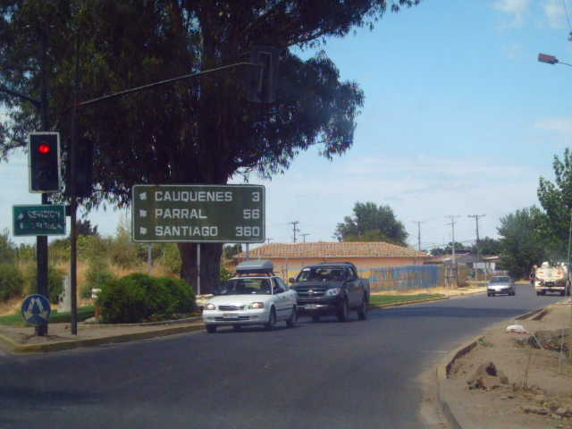 Entry access to Cauquenes city by the coast road